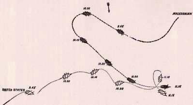 Shows the paths of the United States and the Macedonian during their battle and the positions of the ships at various times during the battle from 09.45 to 11.15, 25 October 1812. From Theodore Roosevelt's The Naval War of 1812 Or The History of the United States Navy during the Last War with Great Britain to Which Is Appended an Account of the Battle of New Orleans, first published 1882. Third edition, page 109.